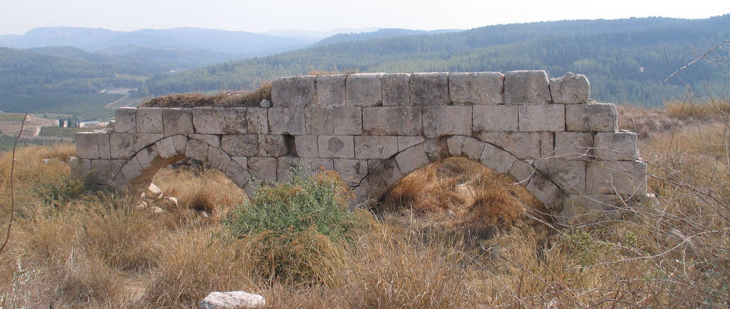 Ruins of the crusader castle at Latrun, Israel.